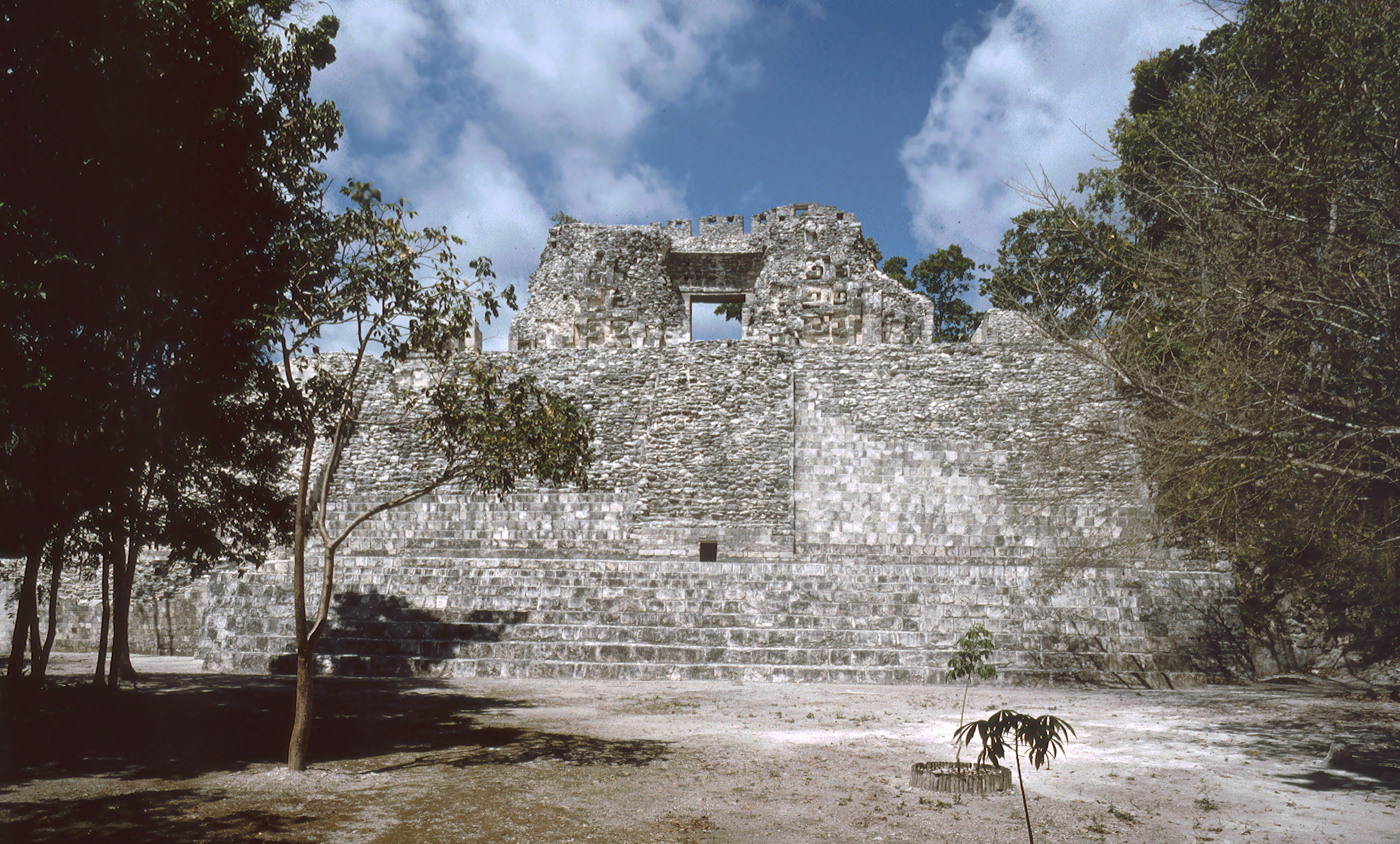 Becan, Campeche, Mexico: east side of building X